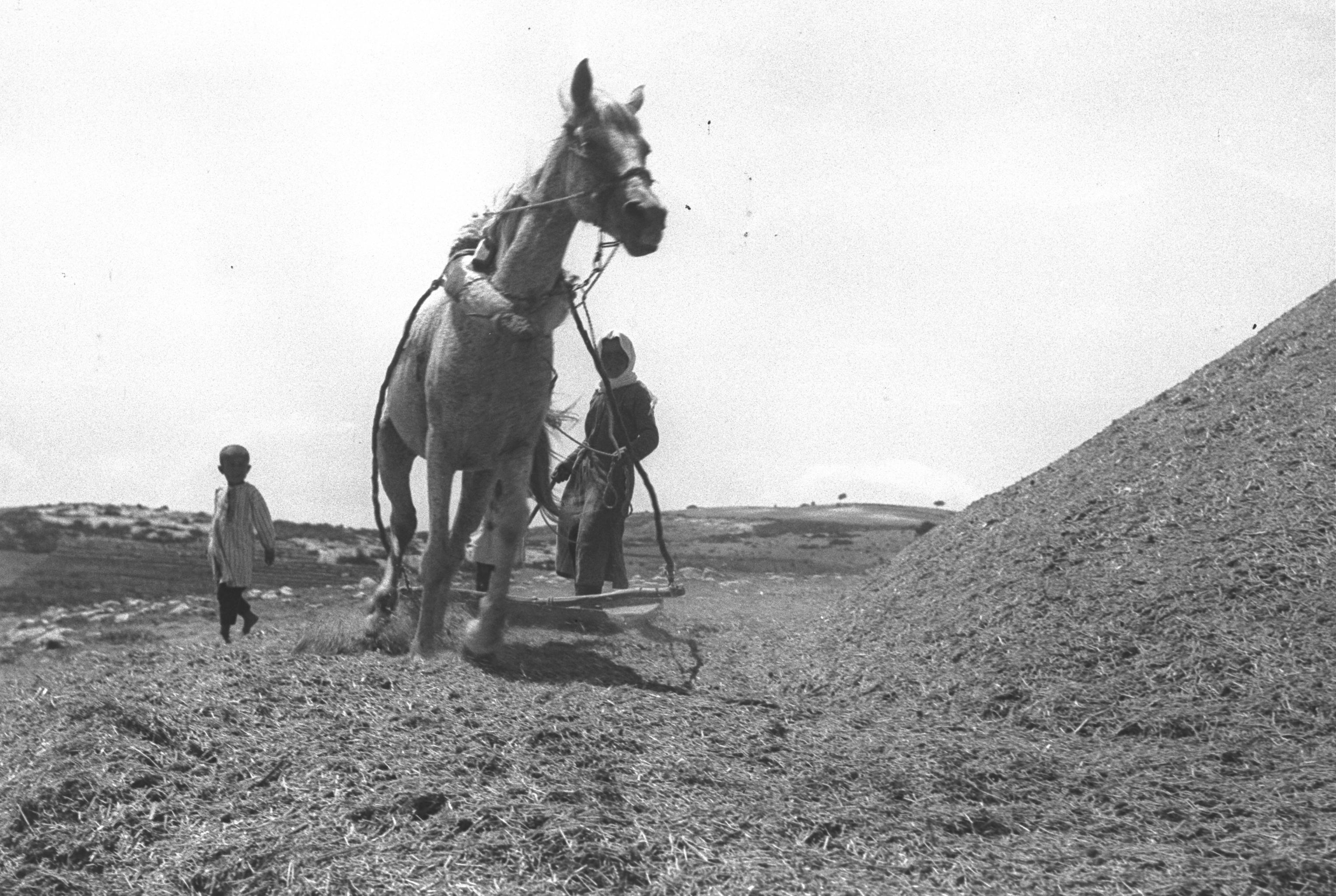 AN ARAB FARMER THRESHING CORN. חקלאי ערבי דש חיטה בעזרת סוס.